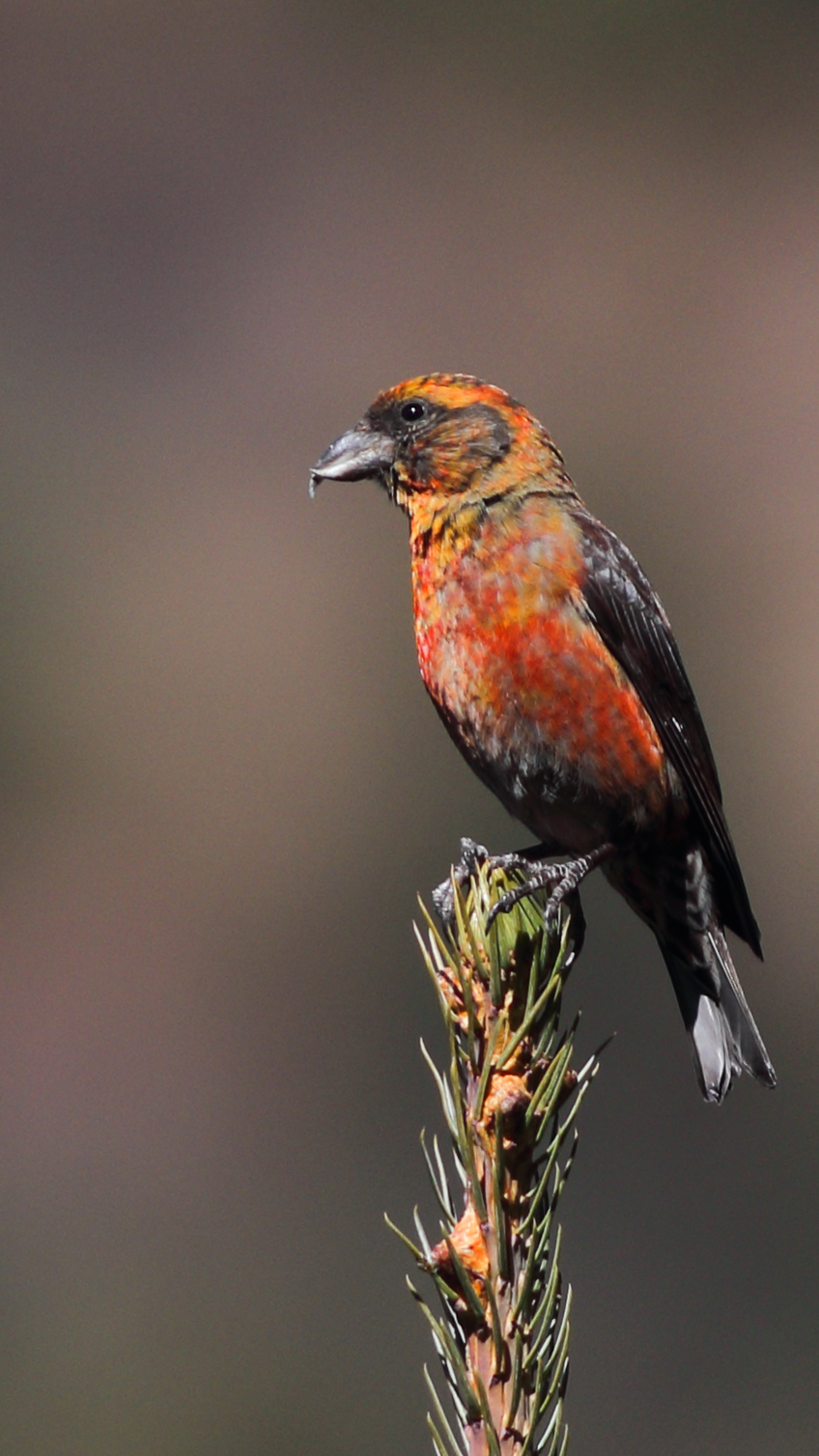 Red Crossbill Bhutan November from 2018